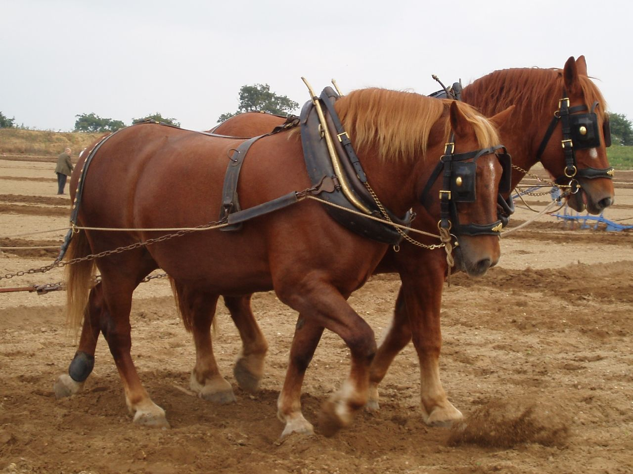 A plow team of Suffolk Punch horses.